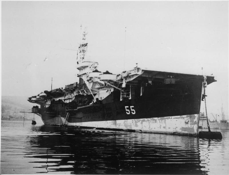 British Bogue/Ameer class escort aircraft carrier HMS Smiter (D55) at a buoy.